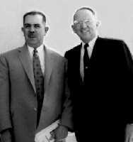 Lazaro Cardenas and W. C. Townsend